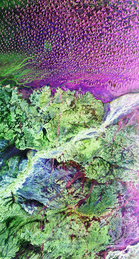 P-44414 This is a radar image of the region around the site of the lost city of Ubar in southern Oman, on the Arabian Peninsula. The ancient city was discovered in 1992 with the aid of remote sensing data. Archaeologists believe Ubar existed from about 2800 B.C. to about 300 A.D. and was a remote desert outpost where caravans were assembled for the transport of frankincense across the desert. This image was acquired on orbit 65 of space shuttle Endeavour on April 13, 1994 by the Spaceborne Imaging Radar C/X-Band Synthetic Aperture Radar (SIR-C/X-SAR). The SIR-C image shown is centered at 18.4 degrees north latitude and 53.6 degrees east longitude. The image covers an area about 50 by 100 kilometers (31 miles by 62 miles). The image is constructed from three of the available SIR-C channels and displays L-band, HH (horizontal transmit and receive) data as red, C-band HH as blue, and L-band HV (horizontal transmit,vertical receive) as green. The prominent magenta colored area is a region of large sand dunes, which are bright reflectors at both L- and C-band. The prominent green areas (L-HV) are rough limestone rocks, which form a rocky desert floor. A major wadi, or dry stream bed, runs across the middle of the image and is shown largely in white due to strong radar scattering in all channels displayed (L and C HH, L-HV). The actual site of the fortress of the lost city of Ubar, currently under excavation, is near the Wadi close to the center of the image. The fortress is too small to be detected in this image. However, tracks leading to the site, and surrounding tracks, appear as prominent, but diffuse, reddish streaks. These tracks have been used in modern times, but field investigations show many of these tracks were in use in ancient times as well. Mapping of these tracks on regional remote sensing images was a key to recognizing the site as Ubar in 1992. This image, and ongoing field investigations, will help shed light on a little known early civilization.